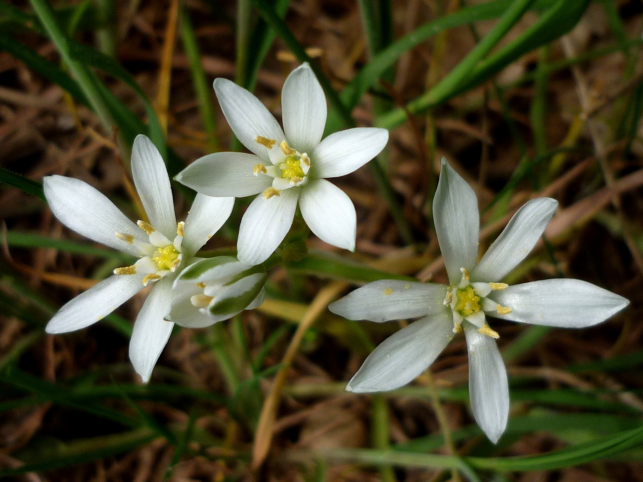 Ornithogalum umbellatum. In Torà (Segarra-Catalunya). To 600 m. altitude